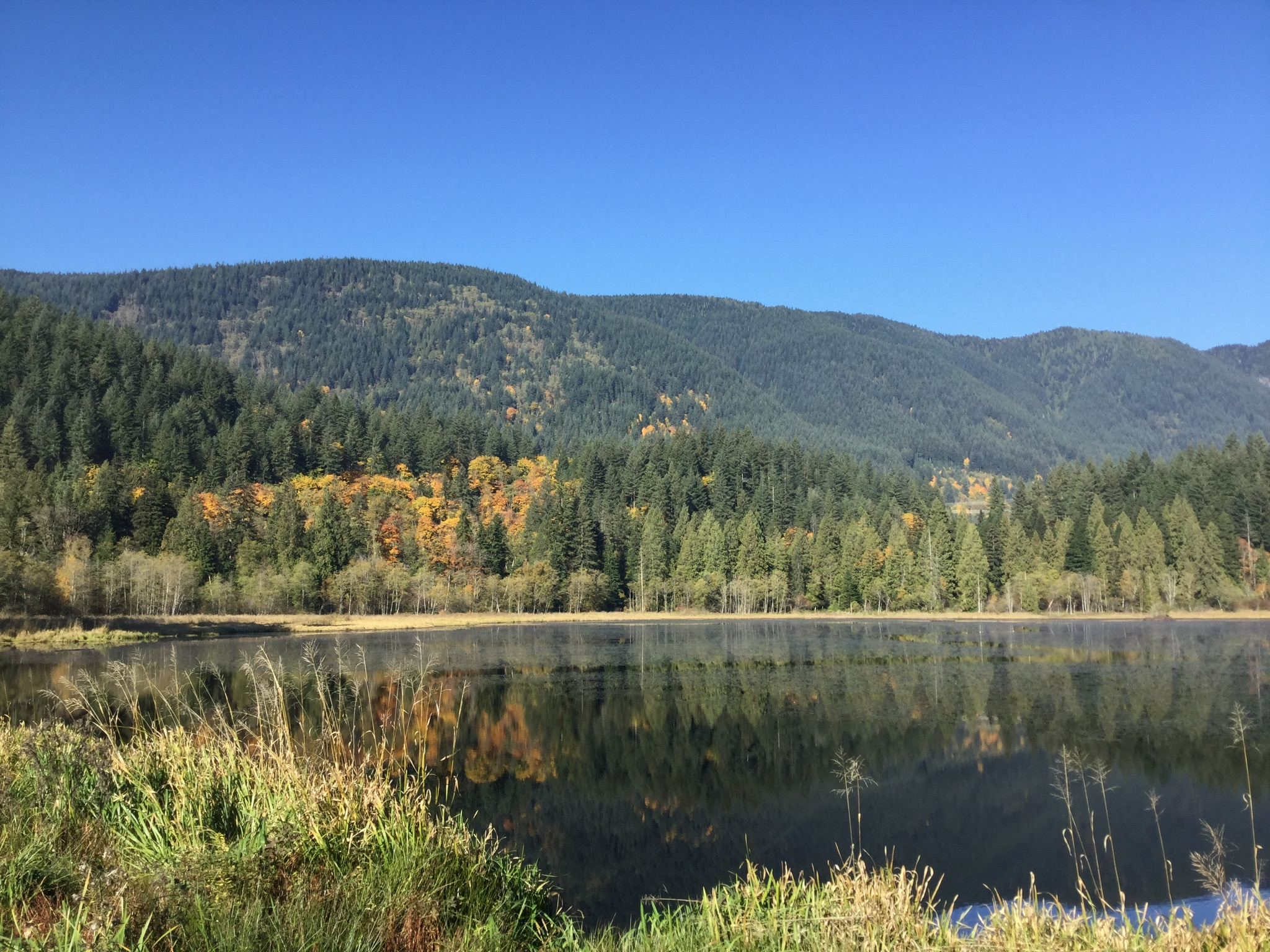 Minnekhada Park in Coquitlam, on October 28 2017.